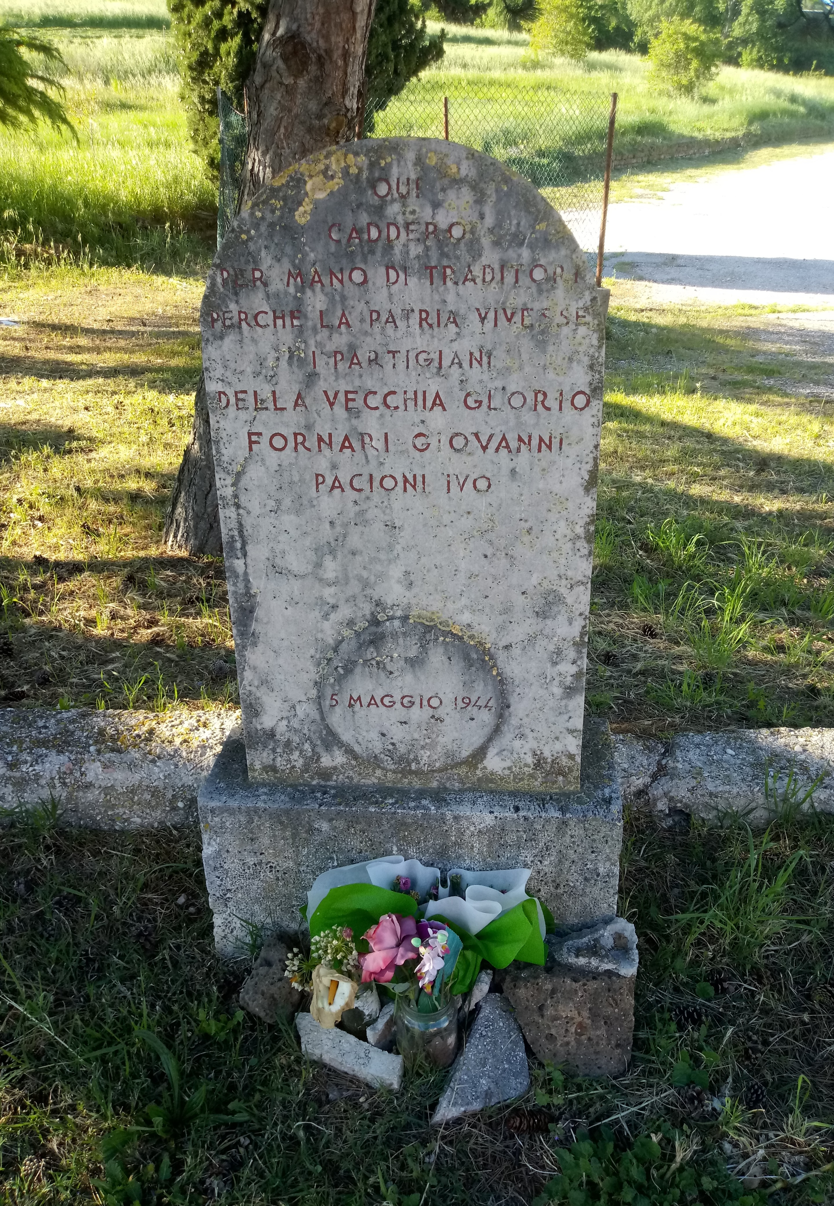 Monument dedicated to three partisans who died during the Second World War